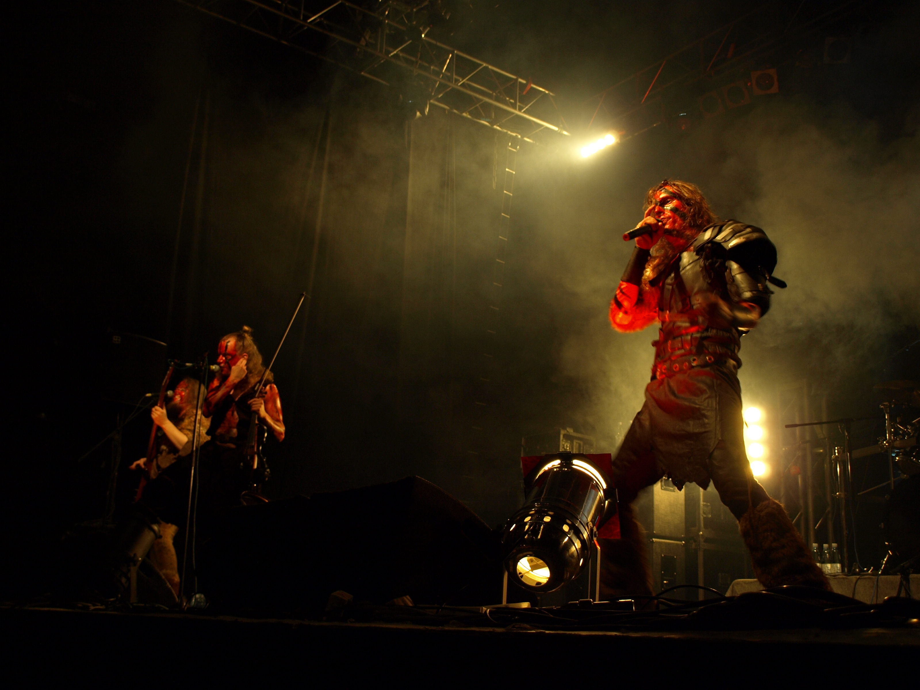 Finnish metal band Turisas live at Jalometalli 2008 in Oulu.